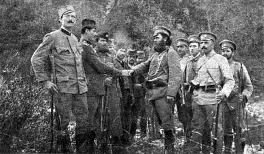 An episode from the Serbian-Bulgarian War in 1917. Leaders of Serbian chetas, acting in the Moravian region, capitulating after being persecuted, in front of the Bulgarian chieftain Tane Nikolov.